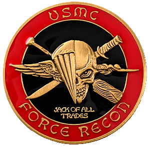 United States Marine Corps Force Reconnaissance pin.